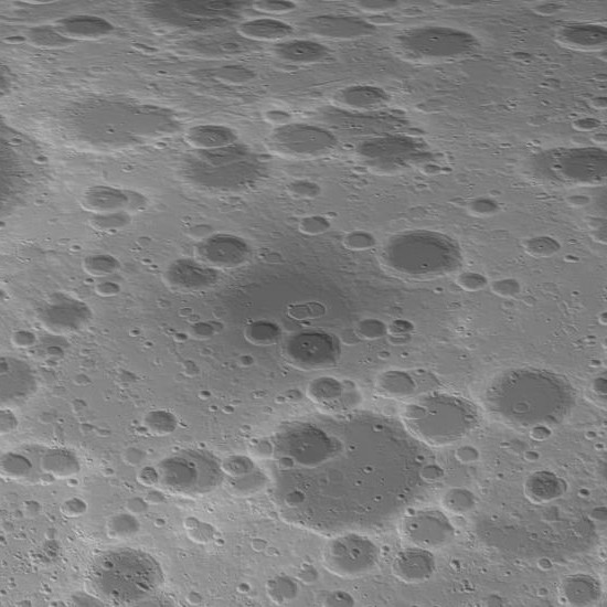 Coulomb-Sarton Basin topographic map (light gray=high, dark gray=low). Generated from LOLA 1024ppd Elevation - Numeric layer with LRO-WAC Shaded Relief layer at 30% opacity overlain.